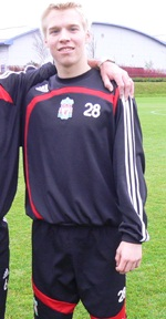 Lauri Dalla Valle at right.